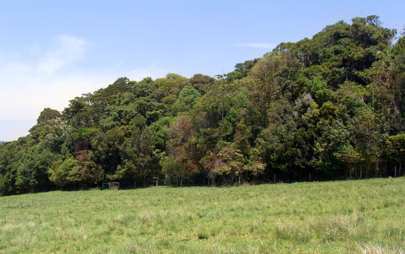 Hayters Hill Rainforest near Byron Bay, Australia